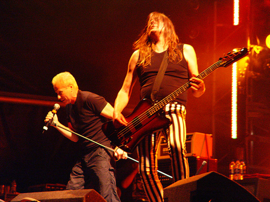 Phil Mogg (left) and Pete Way of UFO at the Derbyshire rock and blues festival .